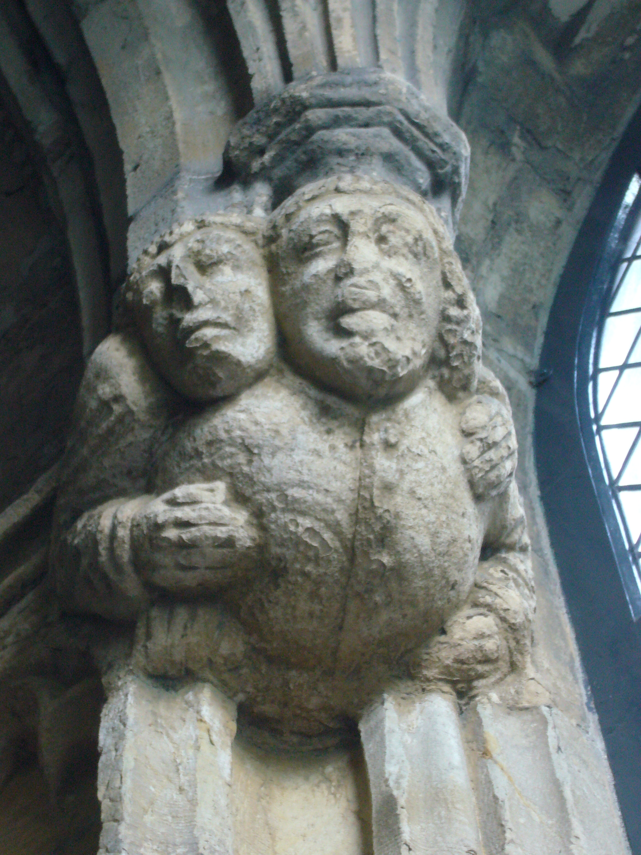 Decoration at the top of a stone pillar at St Winefride's Well. It shows a disabled (or ill) man being carried on the back of his friend to the well.